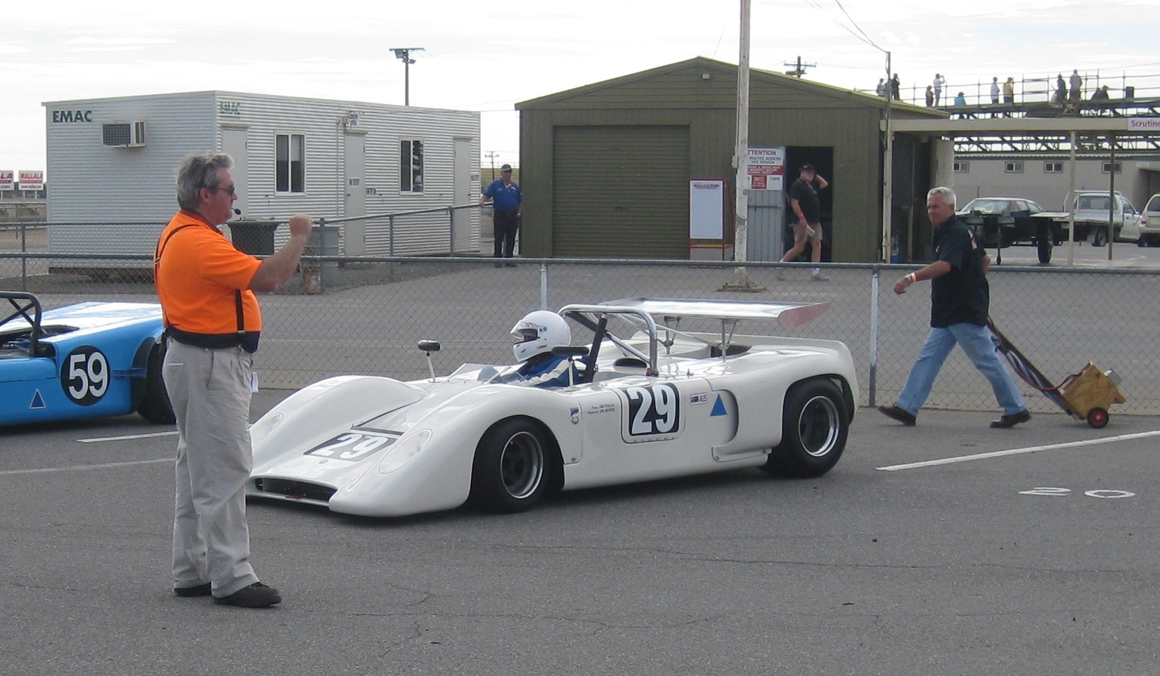 Rennmax BN6 of Jim Foulis at Mallala Motor Sport Park on 3 April 2010